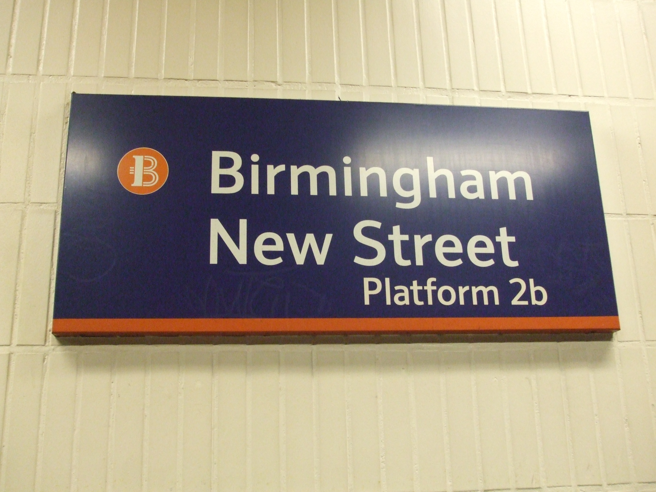 Birmingham New Street platform signage